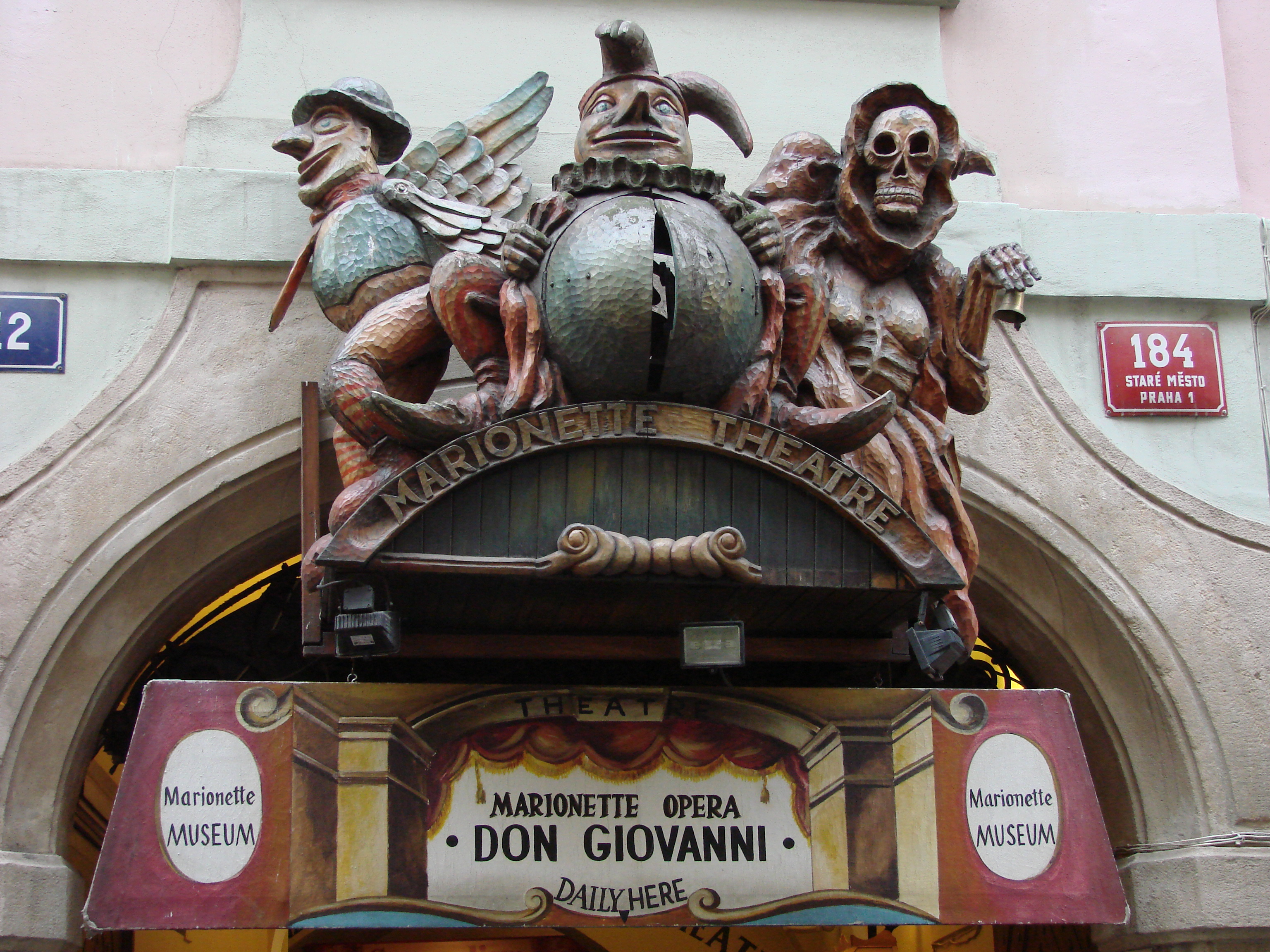 Marionette theatre, Prague